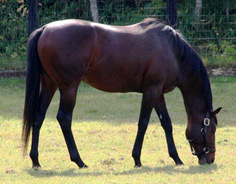 King Kamehameha(Horse, Shadai Stallion Station)